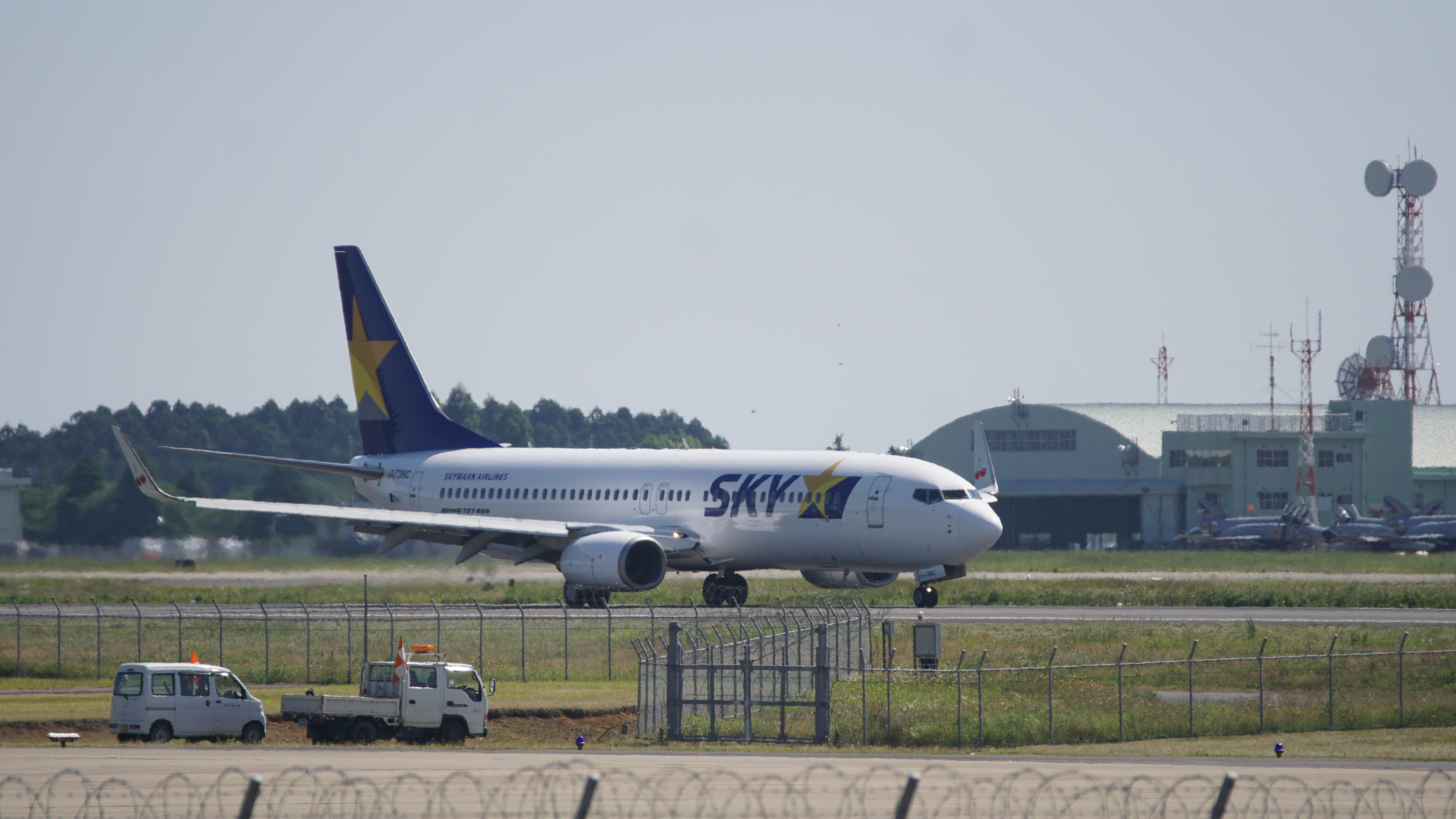 Skymark Airlines B 737 800 at Ibaraki airport 2017